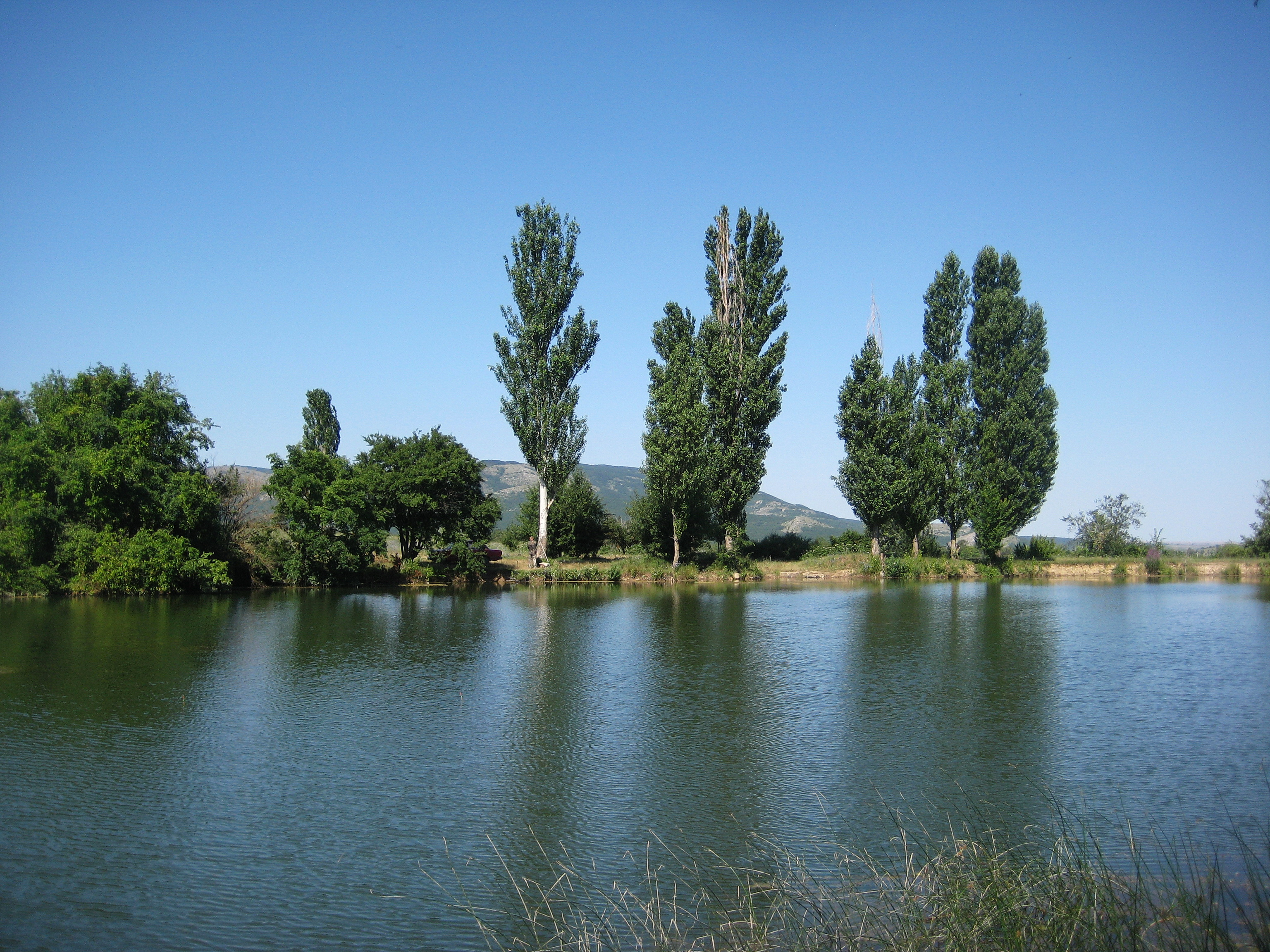 Pond on the river Kopkol, Crimea.